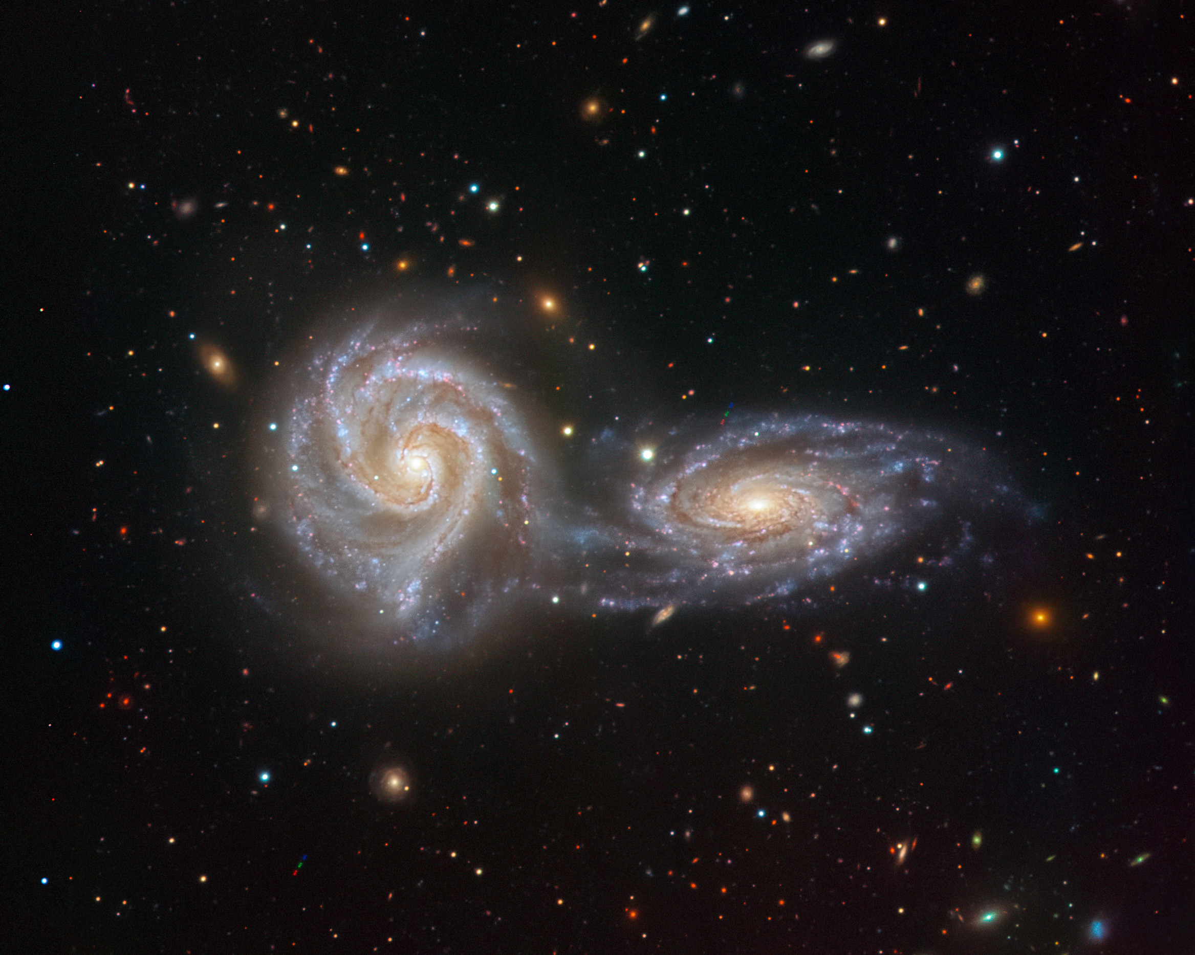 Two spiral galaxies are locked in a spellbinding, swirling dance in this image from the VIMOS instrument on ESO’s Very Large Telescope (VLT). The two interacting galaxies — NGC 5426 and NGC 5427 — together form an intriguing astronomical object named Arp 271, the subject of this, the final image captured by VIMOS before it was decommissioned on 24 March 2018. VIMOS — or, in full, the VIsible Multi-Object Spectrograph — was active on the VLT for an impressive 16 years. During that time it helped scientists to uncover the wild early lives of massive galaxies, observe awe-inspiring triple-galaxy interactions, and explore deep cosmic questions such as how the Universe’s most massive galaxies grew so large. Instead of focusing on single objects, VIMOS was able to capture detailed information about hundreds of galaxies at once. This sensitive instrument collected the spectra of tens of thousands of galaxies throughout the Universe, showing how they formed, grew, and evolved. Arp 271 is framed against a backdrop of distant galaxies in this view, and wisps of bluish gas, dust and young stars can be seen bridging the gap between the two galaxies — a result of their mutual gravitational interaction. Like many astronomical observations, this image looks back in time. Thanks to the vast gulf of space separating the Earth and Arp 271, this image shows how the galaxies looked over 110 million years ago: the amount of time it has taken their light to reach us. This kind of collision and merger is also thought to be the eventual fate of the Milky Way, which scientists believe will undergo a similar interaction with our neighbouring galaxy Andromeda.